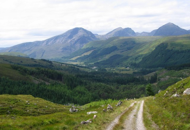 View to Strathcarron. Leaving the higher glen of the Pollan Buidhe and descending into Achnashellach Forest. View dominated by Fuar Tholl.